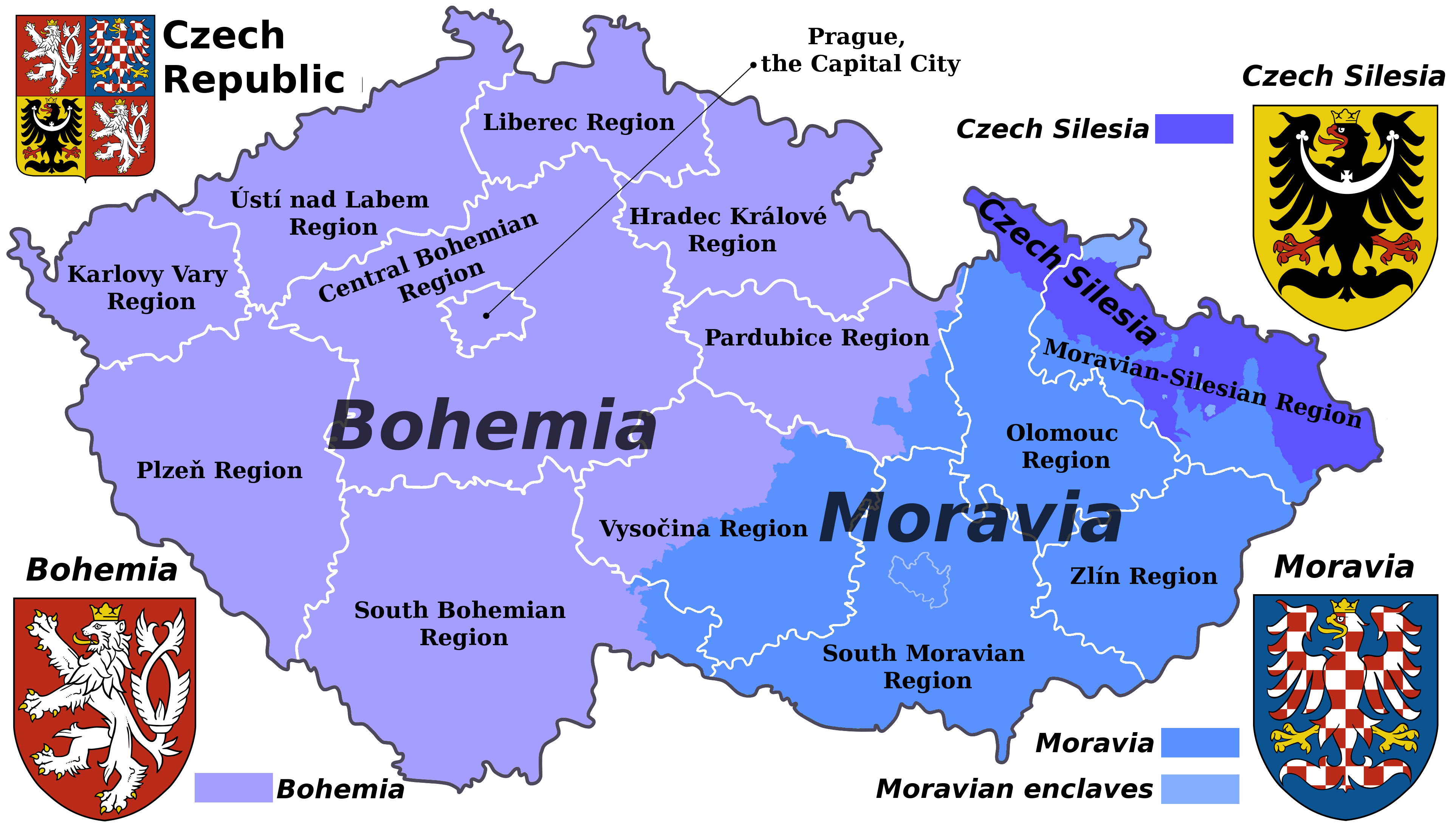 Map of the Czech republic showing the borders of its historical lands and the borders of the current administrative regions (kraje).